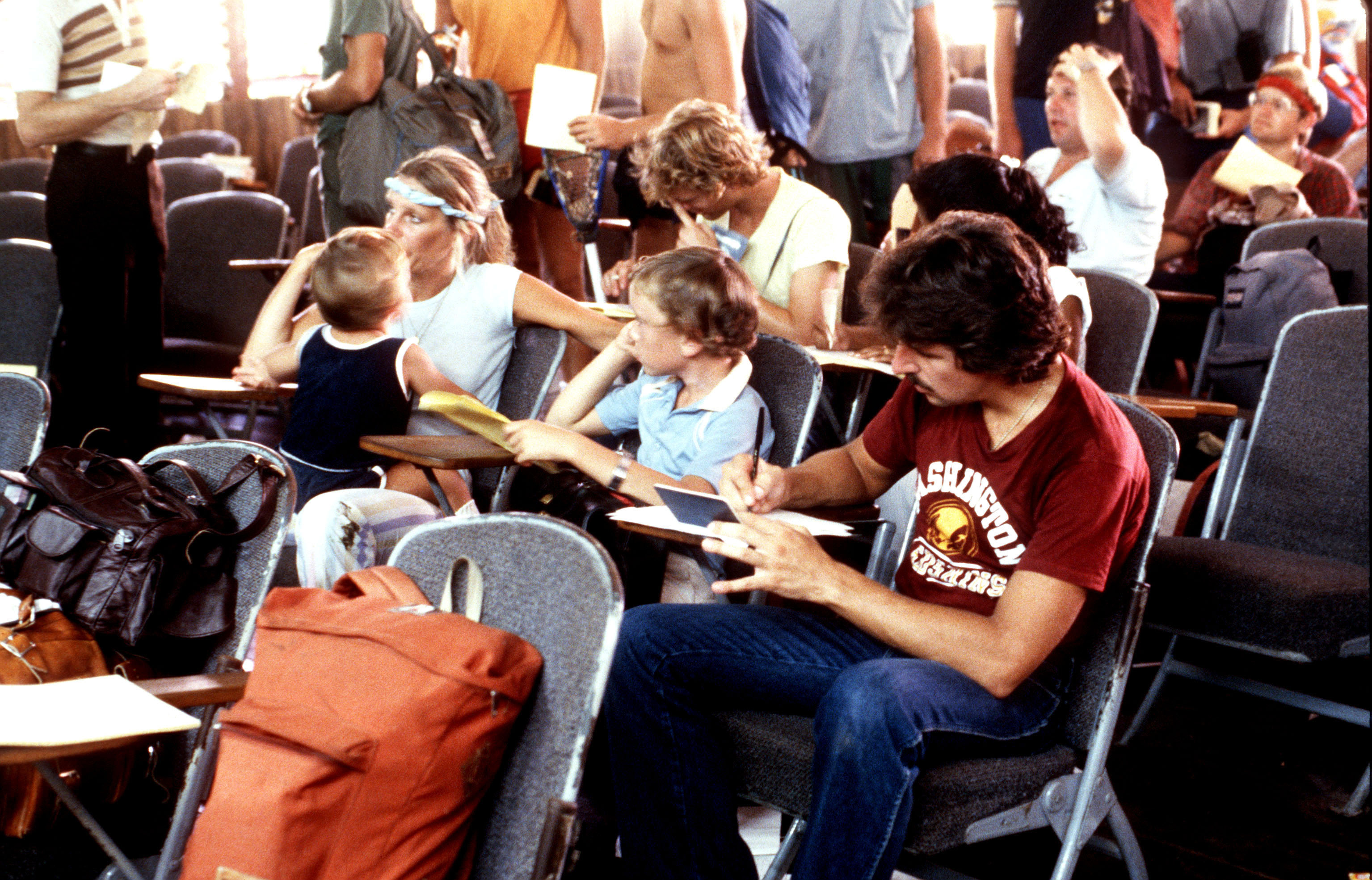 Original caption: "American students sit inside a terminal waiting to be evacuated from the island by US military personnel during Operation URGENT FURY."